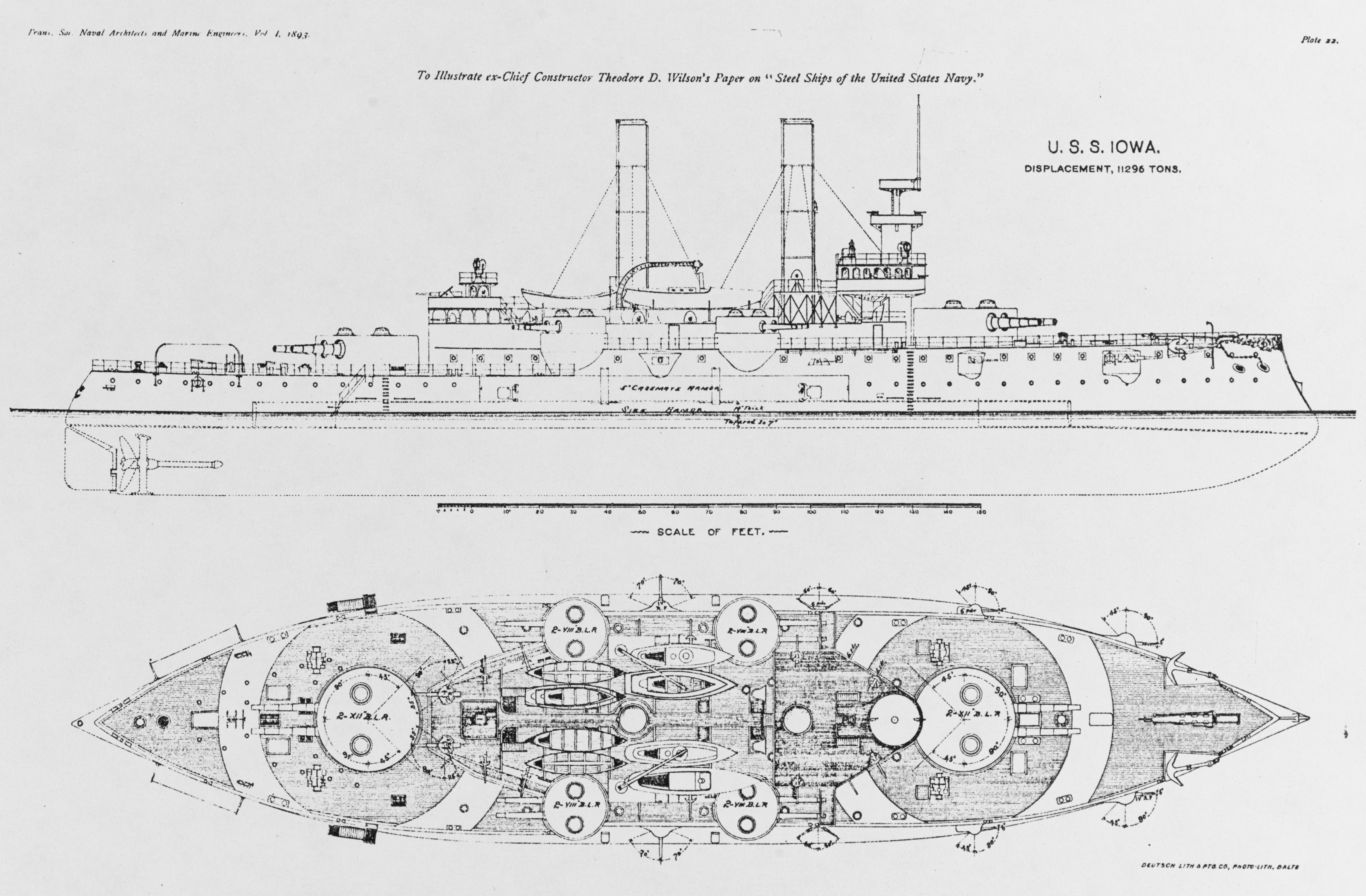 The United States battleship USS Iowa (BB-4), outboard profile and plan view, 1893.